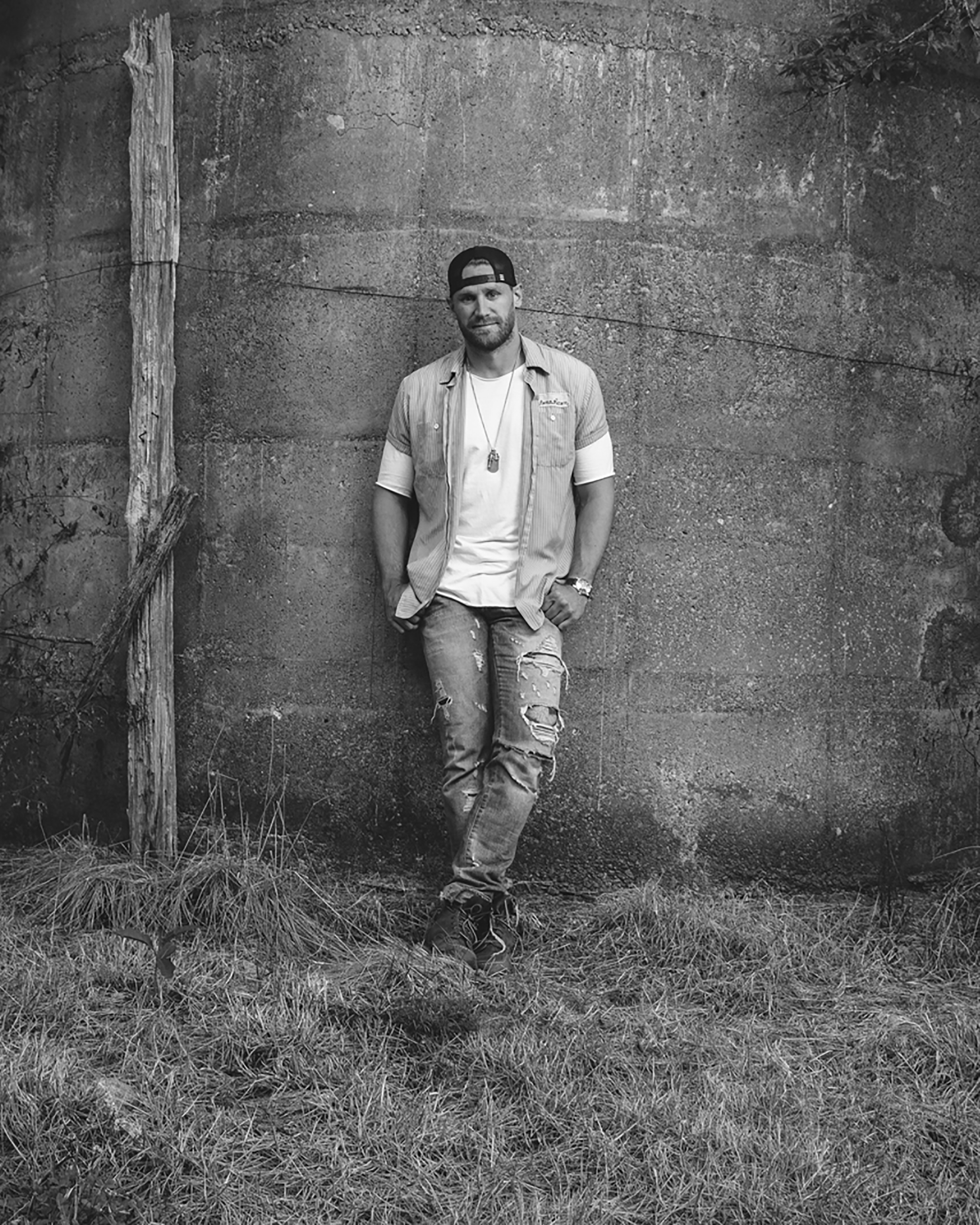 Official photo for Chase Rice